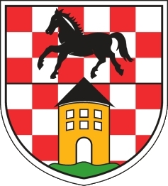 The checkerboard pattern (“chequy”) was the arms borne by the Counts of Sponheim. Above the line of partition is a black horse, whose attitude is “trotting” for a reason: this makes it a canting charge, for the German word for “trot” is traben – part of the town’s hyphenated name. Traben’s name, however, which comes from a Celtic name, Traven, a description of a small settlement, has nothing whatsoever to do with a horse. The tower below the line of partition stands for the local castle in Trarbach and therefore for Trarbach itself. The arms have been borne since 1951.